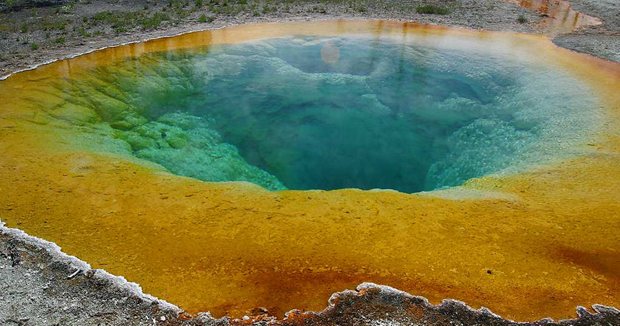 Name: Microbiology ID: Language: English Summary: Subjects: Science and Technology Keywords: Print Style: License: Creative Commons Attribution License (by 4.0) Authors: OpenStax Microbiology Copyright Holders: OpenStax Microbiology Publishers: OpenStax Microbiology Latest Version: 4.4 First Publication Date: Oct 17, 2016 Latest Revision: Nov 11, 2016 Last Edited By: OpenStax Microbiology